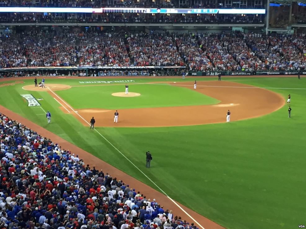 The Chicago Cubs and the Cleveland Indians play Game 7 of the World Series at Progressive Field in Cleveland, Ohio, Nov. 2, 2016. (K.Farabaugh-VOA)